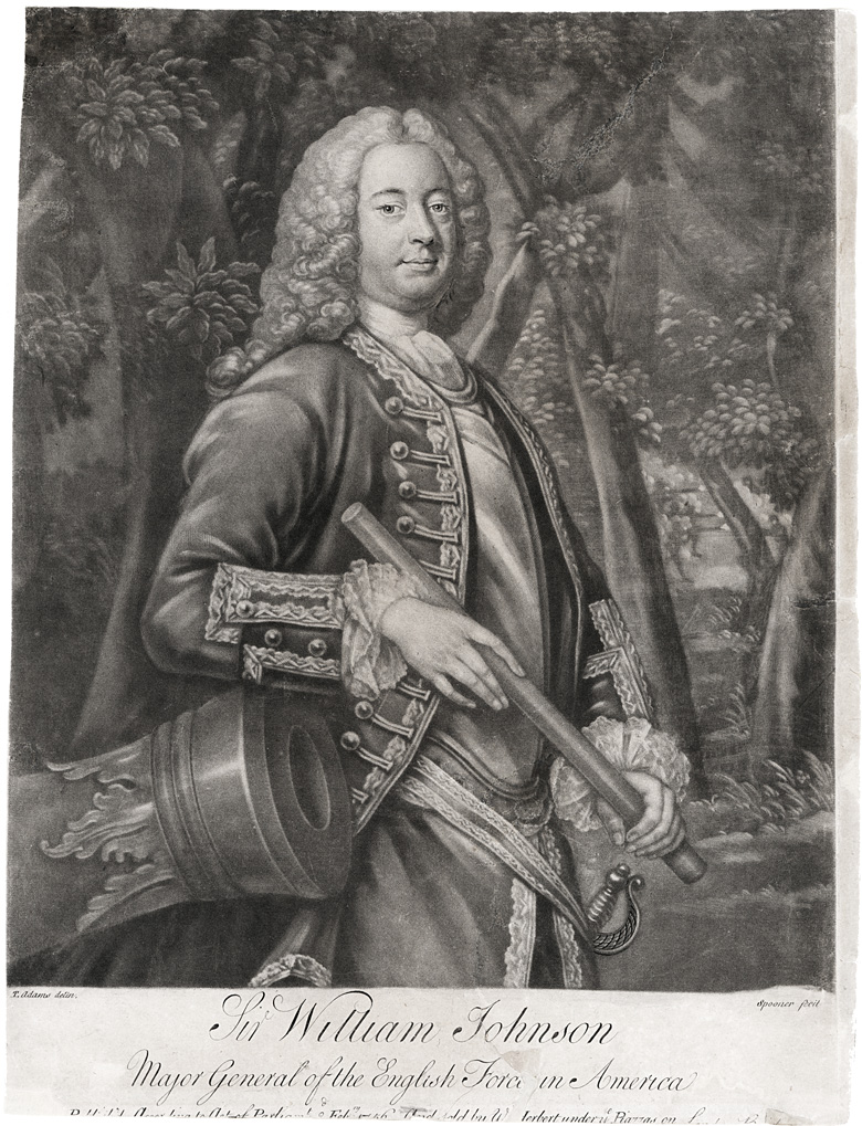 Mezzotint engraving of William Johnson with the caption: Sir William Johnson : Major General of the British forces in America